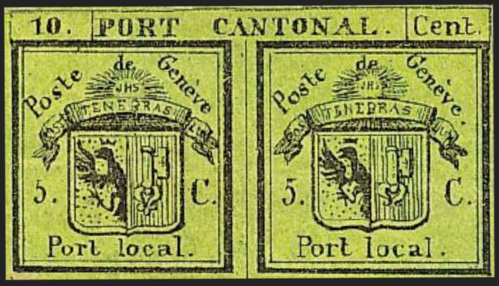 The Double Geneva, the first stamps of the canton of Geneva.